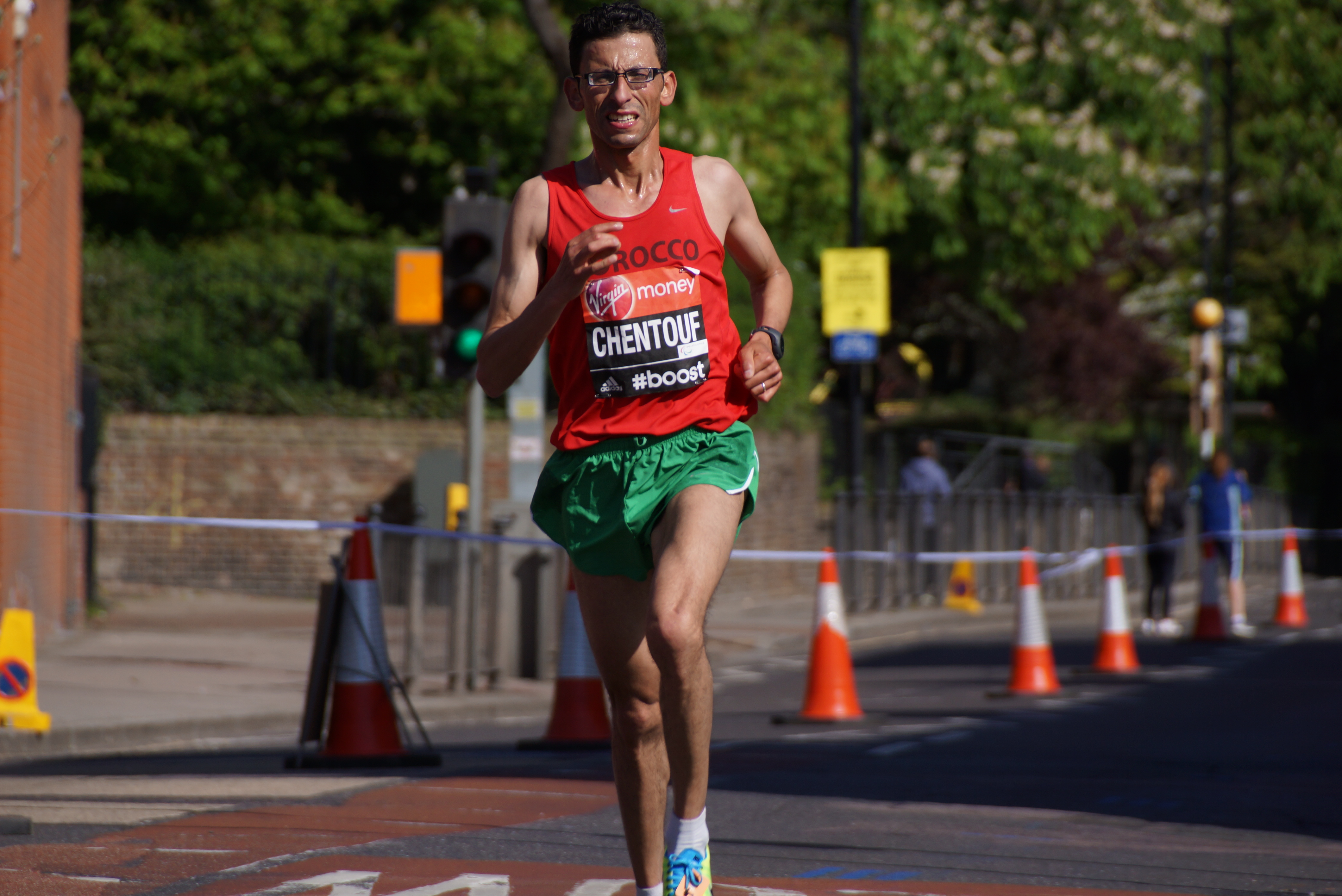 Photograph taken by Julian Mason on 13th April 2014 during the London Marathon. Location Westferry Road on the Isle of Dogs close to Arnhem Place and just before Millwall Outer Dock.